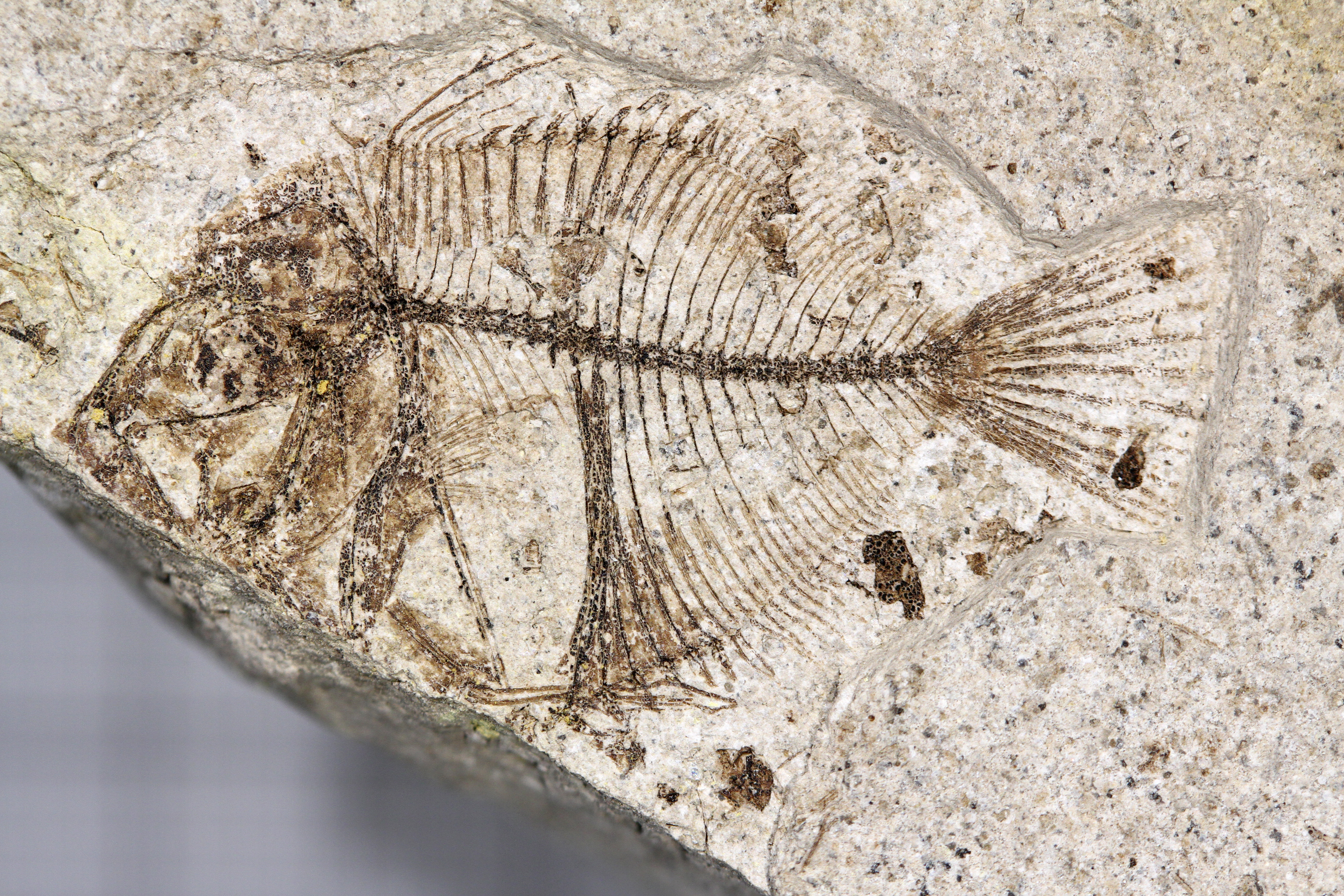 Palaeocentrotus boeggildi - fish from the Lower Eocene Fur Formation